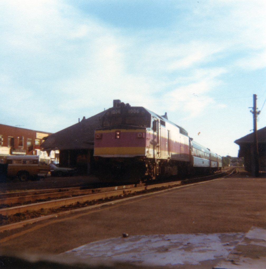 An MBTA train, headed by EMD F40PH locomotive #1006, at Framingham Railroad Station in 1977